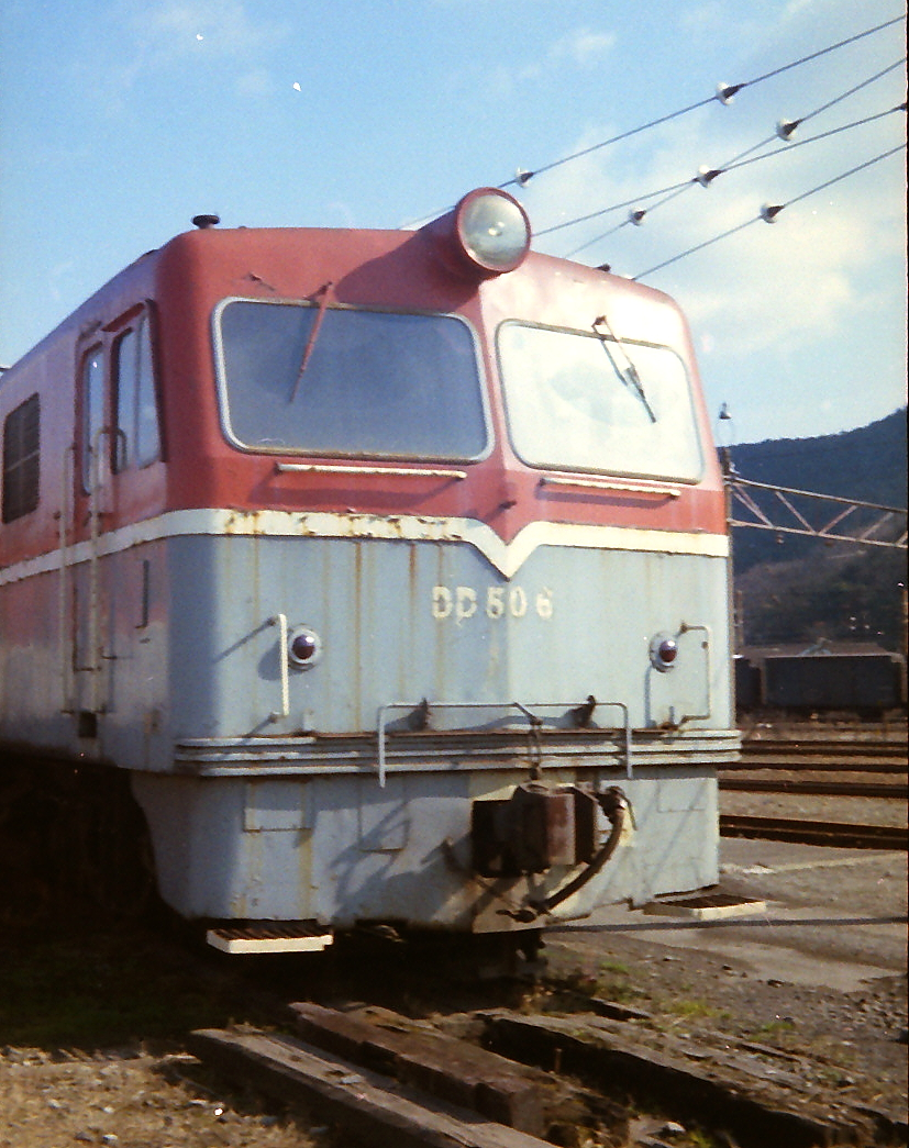 Japan National Railways DD50 Diesel locomotive at the Maibara Depot